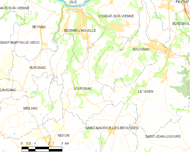 Map of French municipality Jourgnac